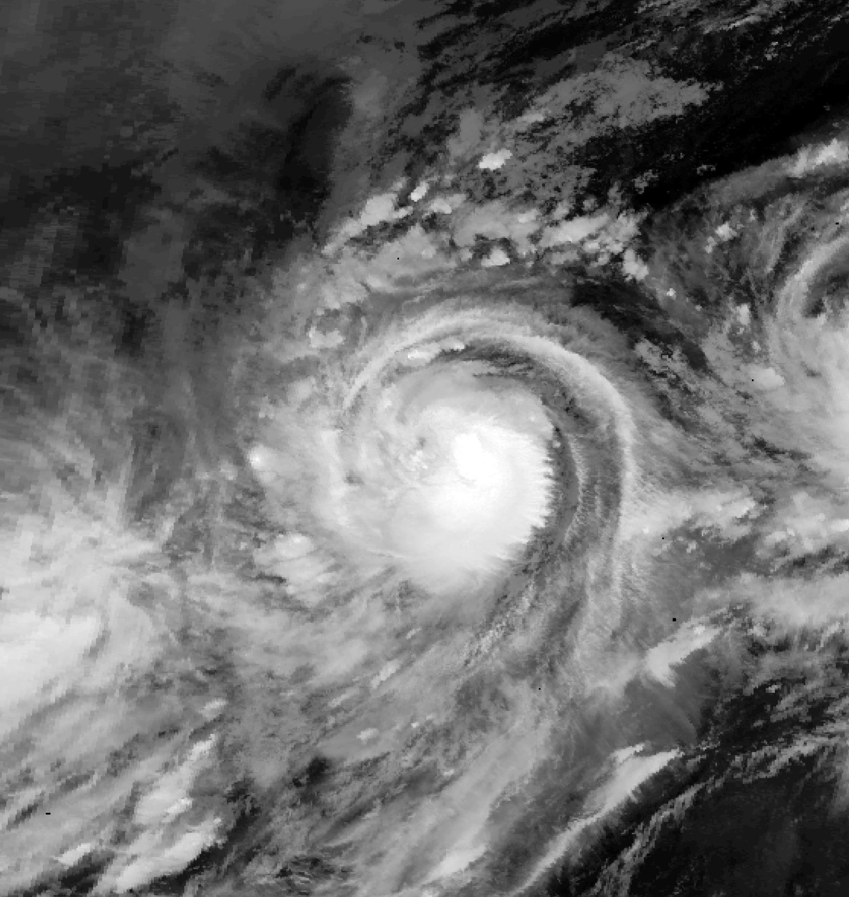 Typhoon Flo (Kadiang) on October 3, 1993